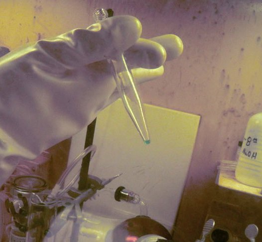 It took 250 days to make enough berkelium, shown here (in dissolved state), to synthesize element 117.